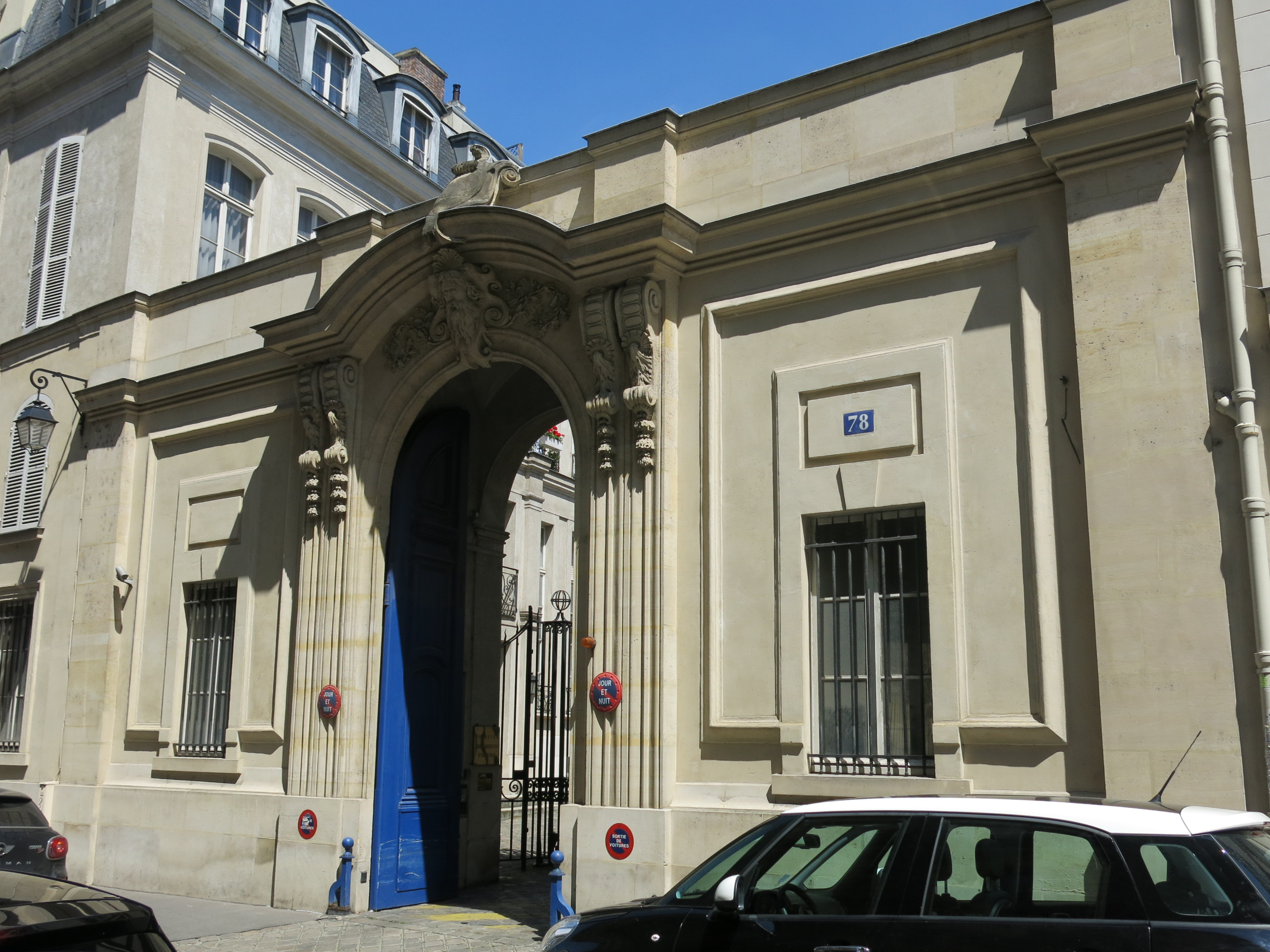 Building 78 rue de l'Université, Paris 7th arrond. (France). In 2016, this is the Taipei Representative Office in France (of the Republic of China on Taiwan)